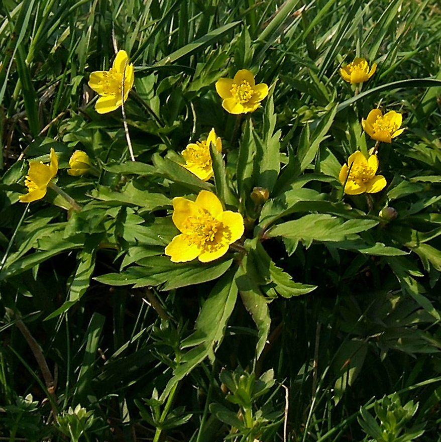 Yellow anemone